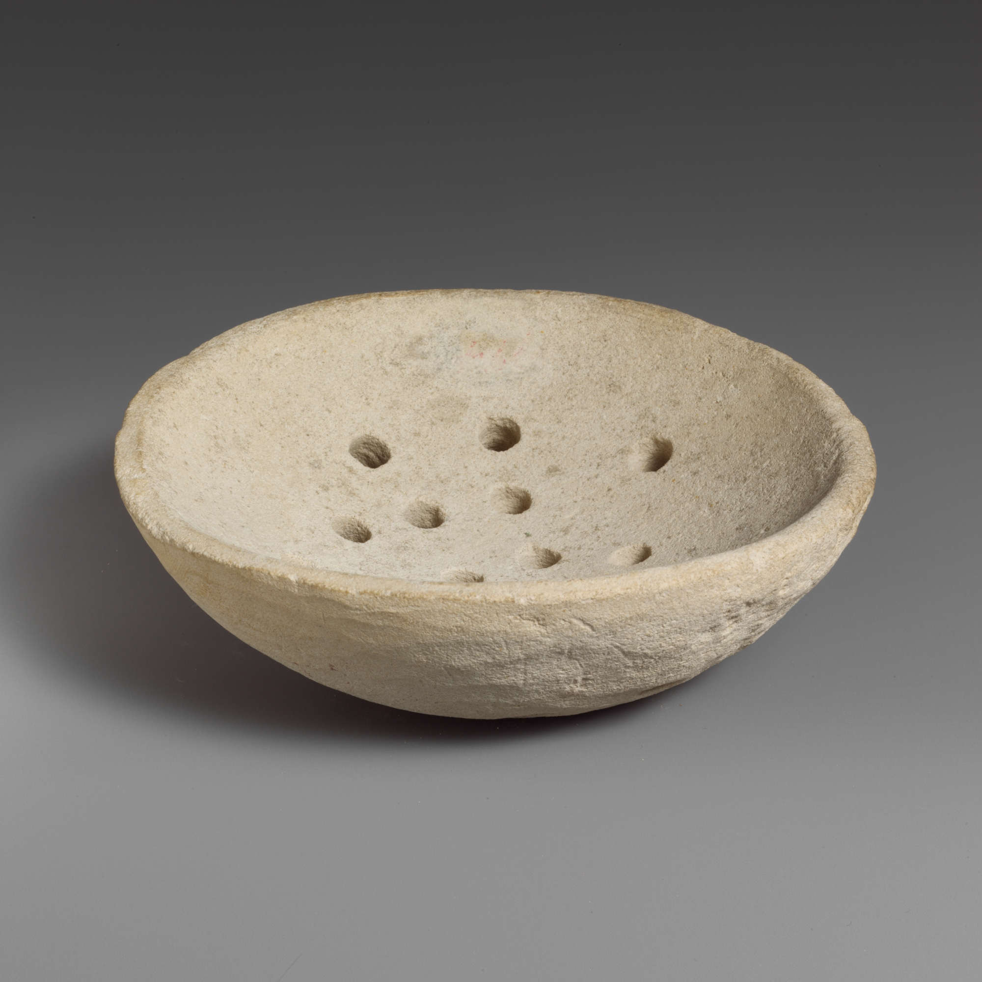 Cypriot; Strainer; Miscellaneous-Stone